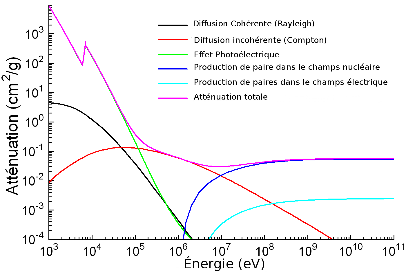 French version of Ironattenuation.PNG